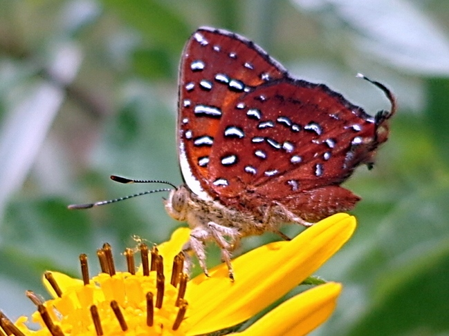 Axiocerces harpax on sunflower in Lagos, Nigeria